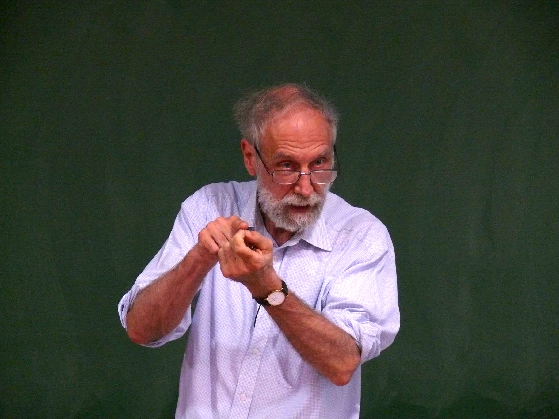 Alain Connes during a conference at IUT A in Villeneuve-d'Ascq (Nord, France).